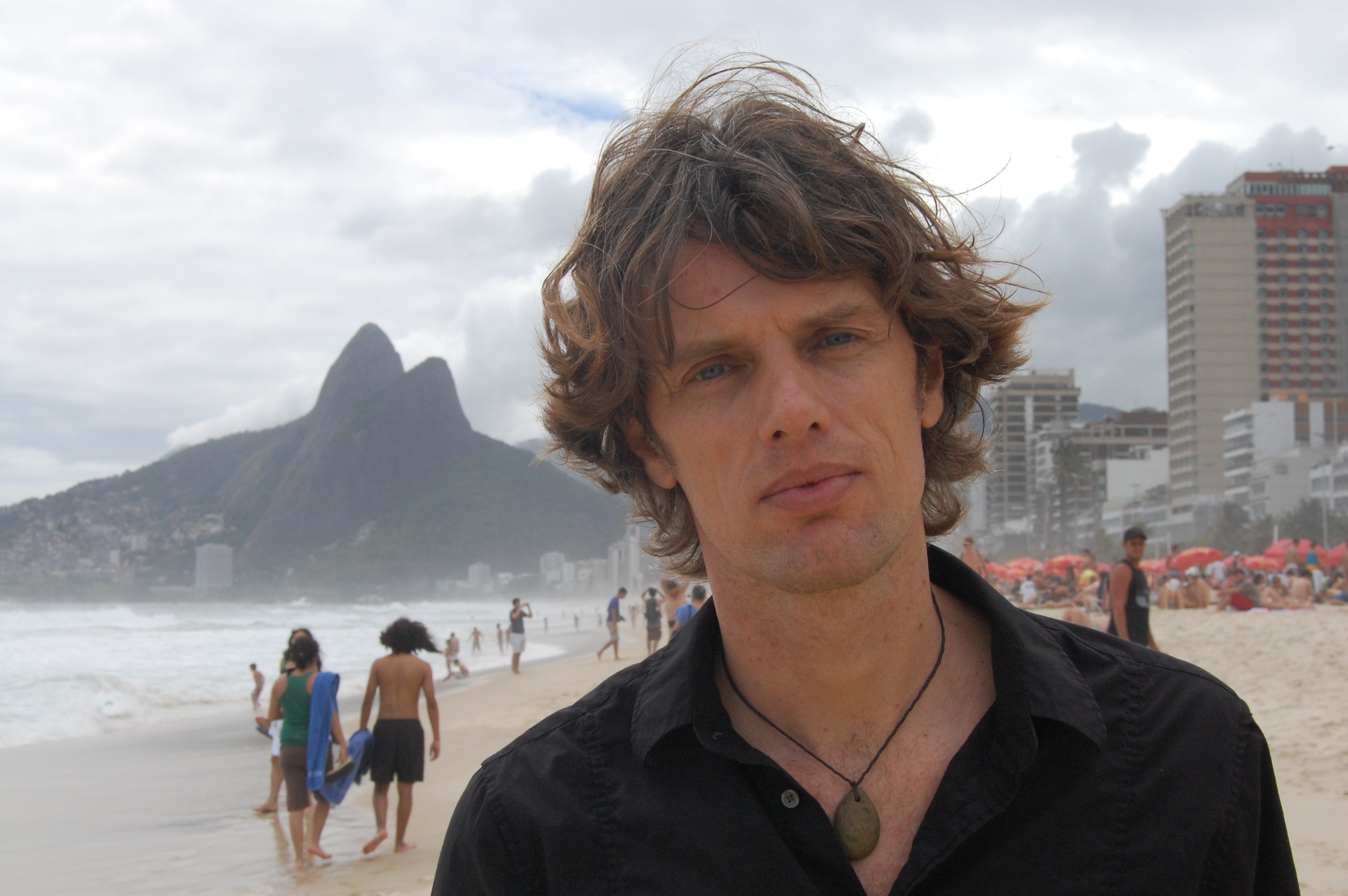 Ralf Schmid in Rio de Janeiro, 2009